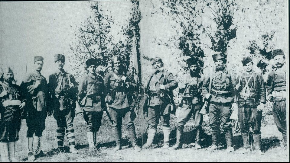 The leaders of the Bulgarian - Turkish Thracian army of 1920 in Western Thrace.